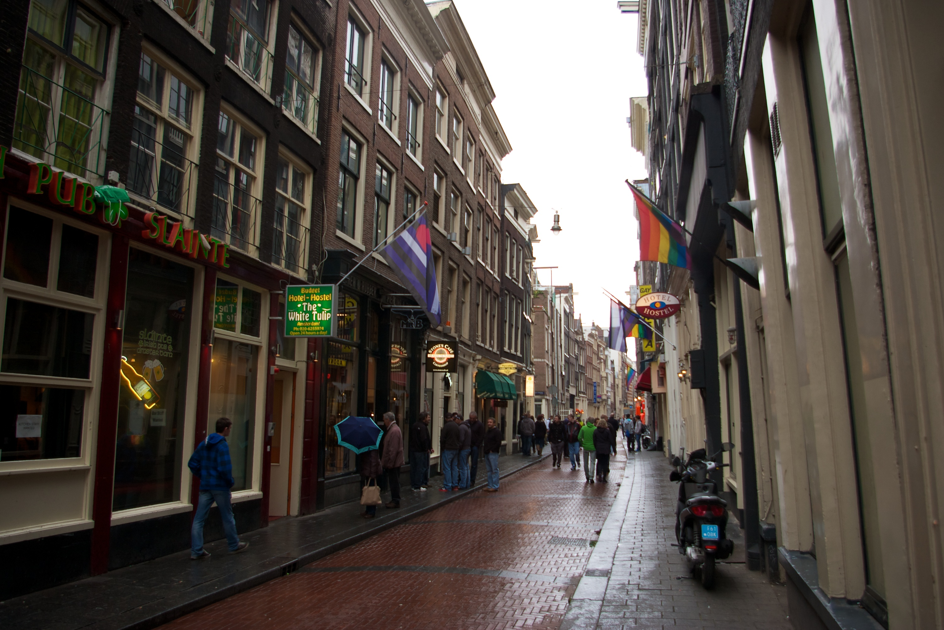 Warmoesstraat, a street in Amsterdam-Centrum, filled with sex shops, gay bars and coffeeshops.